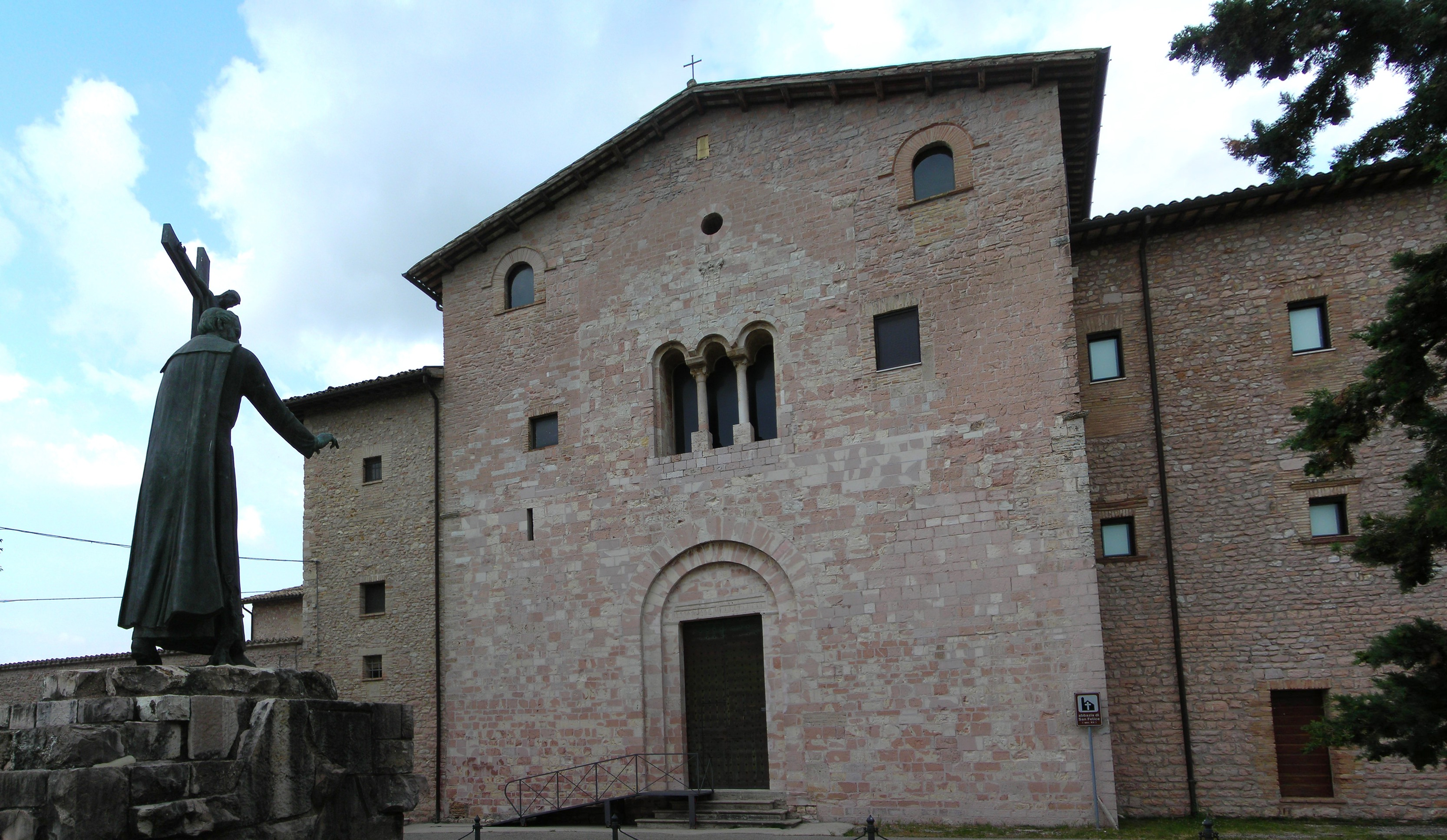 Abbey of St Felice, Bastardo, Giano dell'Umbria, Perugia, Umbria, Italy